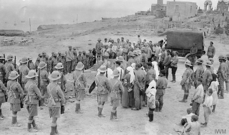 Funeral of the first British soldiers to be killed at Baku